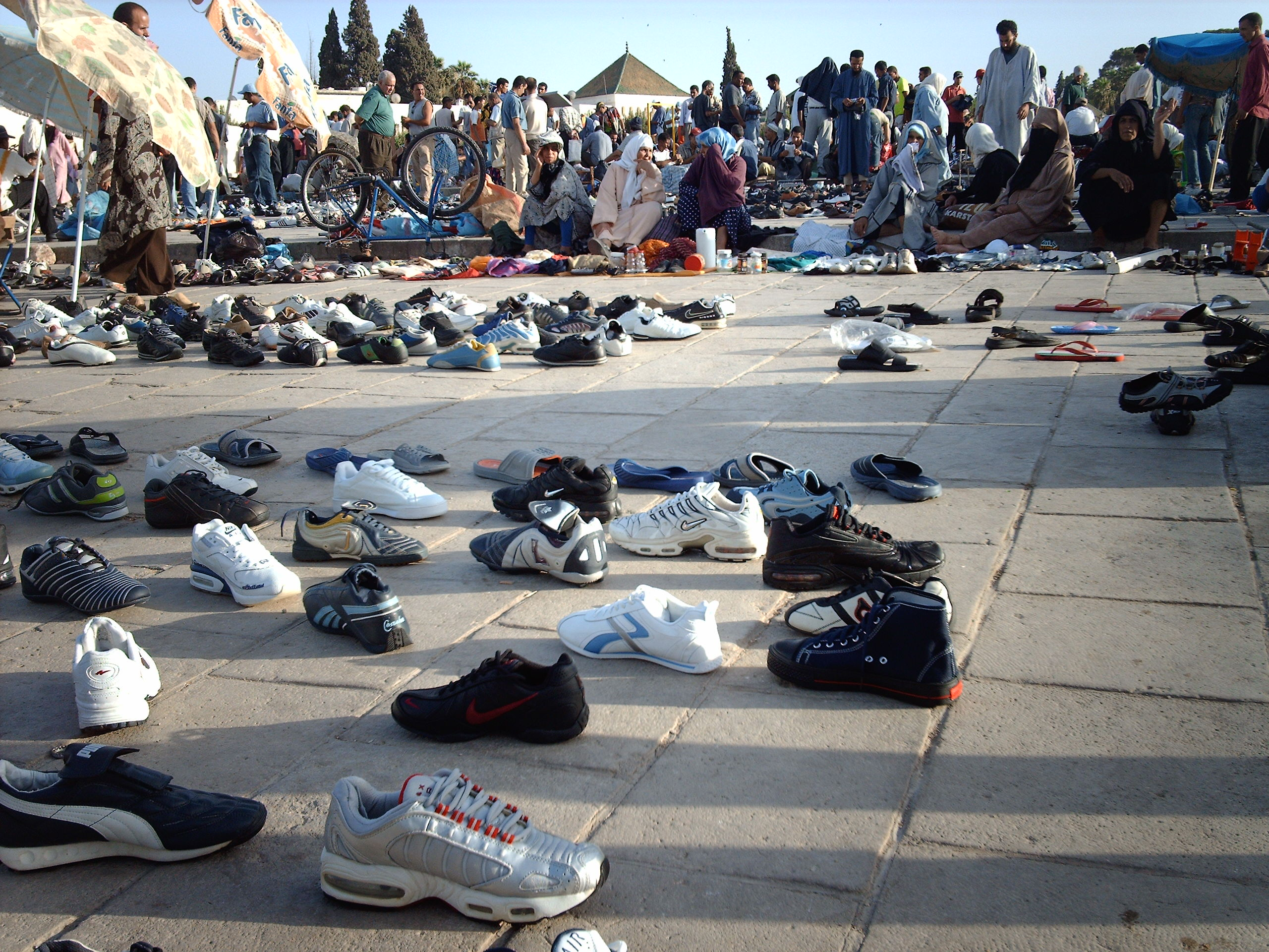 Used shoes on sale in a public square in Fez, Morocco. Taken by the uploader, Richard Adams, in August 2007.